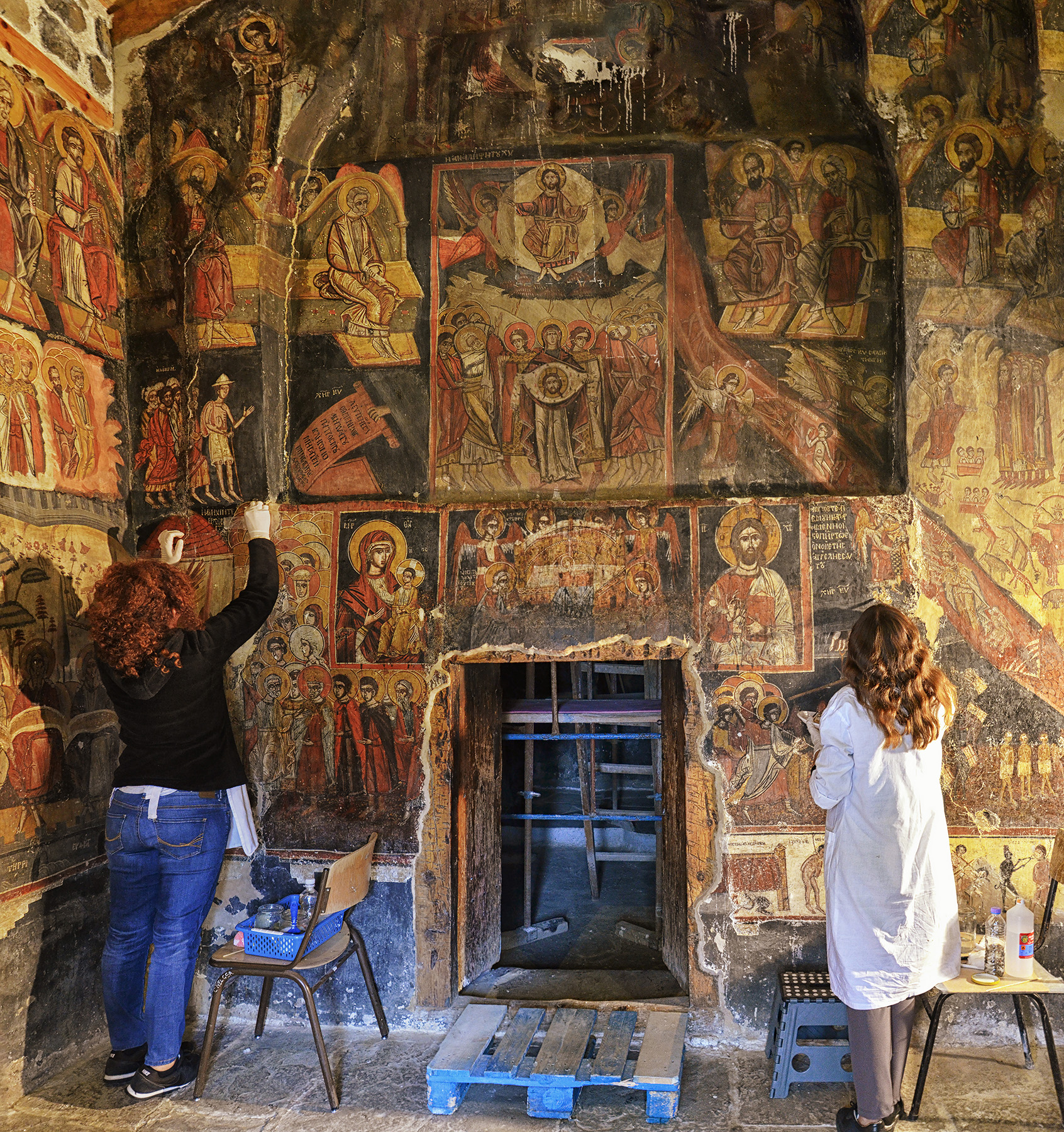 The interior of the Holy Resurrection Church in Mborje, Albania under restoration